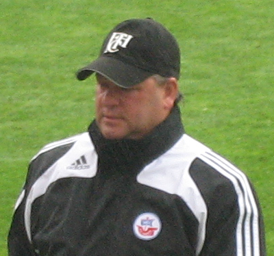 Frank Pagelsdorf, coach of Hansa Rostock. The picture was taken before the kick-off of the match Hansa Rostock vs. FSV Mainz in the Ostseestadion.